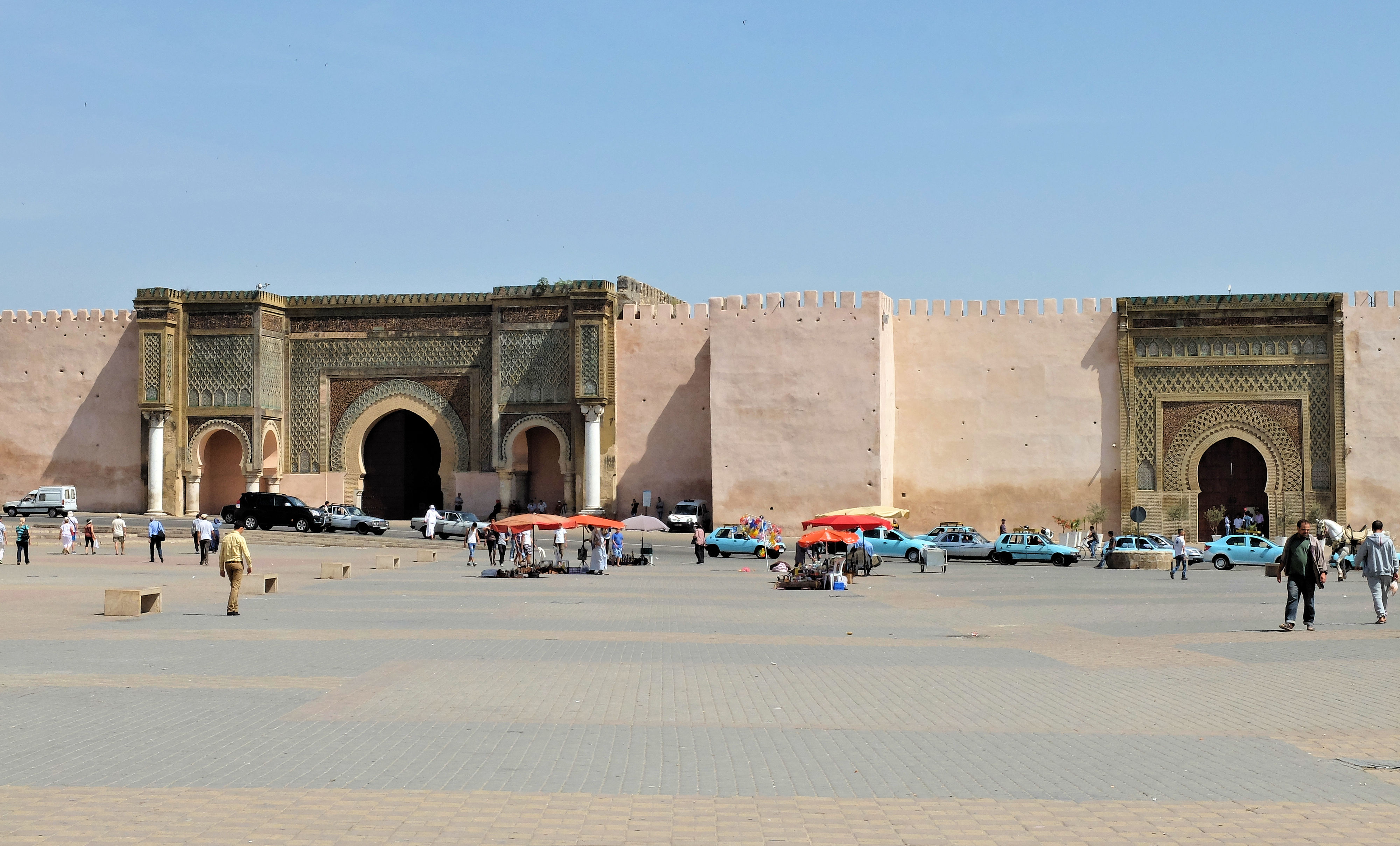 Bab el-Mansur in Meknes, with Bab Jama' en-Nouar on the right